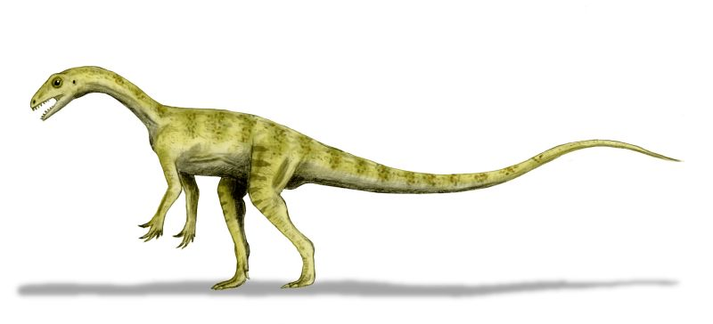 Pantydraco caducus, a sauropodomorph from the Late Triassic or Early Jurassic of England, after Yates, 2003, pencil drawing, digital coloring